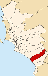 Map of Lima highlighting the Punta Hermosa district in southern Lima.